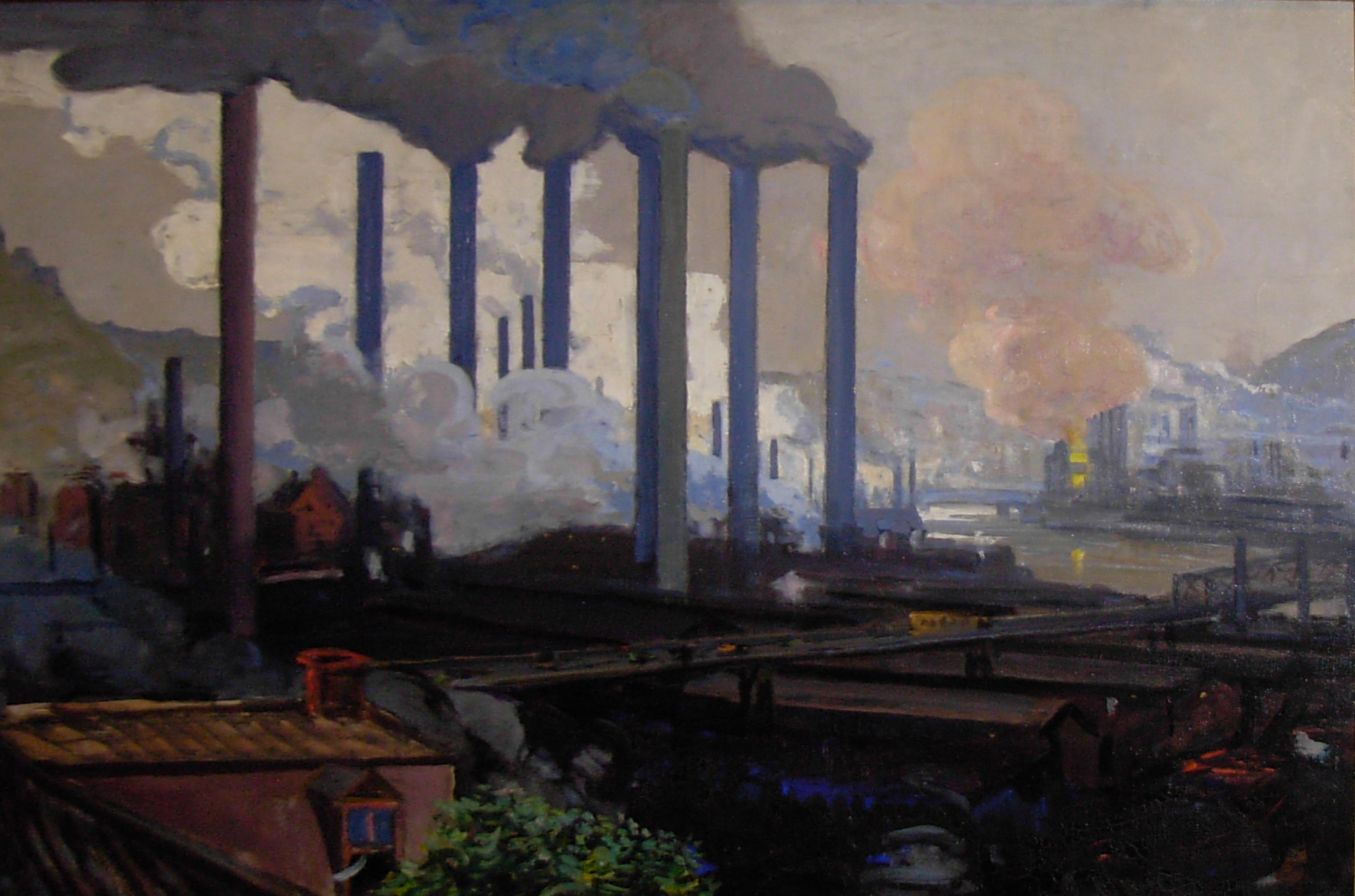 Unreadable description but I remember it was PD (due to age) when I was reading the description it few months ago